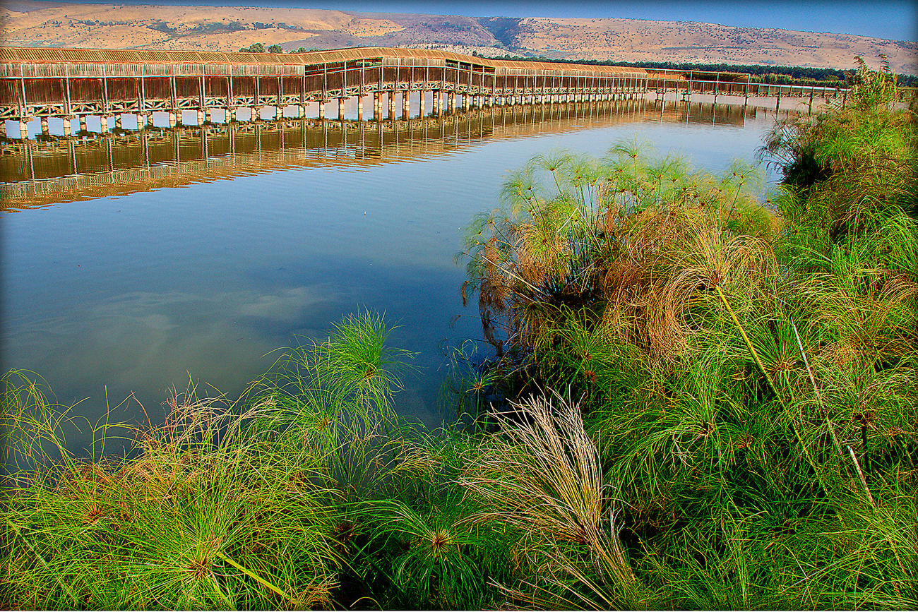 Hula nature reserve , Geography of Israel